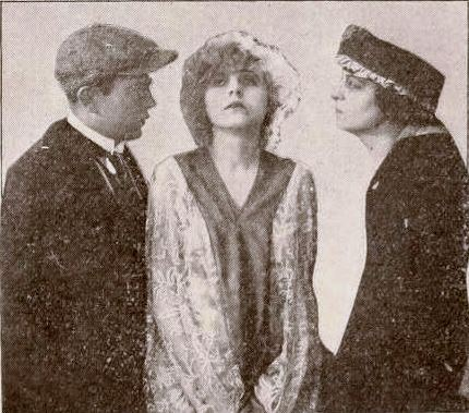 Still from the American drama film The Auction Block (1917) with Tom Powers, Rubye De Remer, and Florence Deshon, on page 24 of the September 1, 1917 Exhibitors Herald.